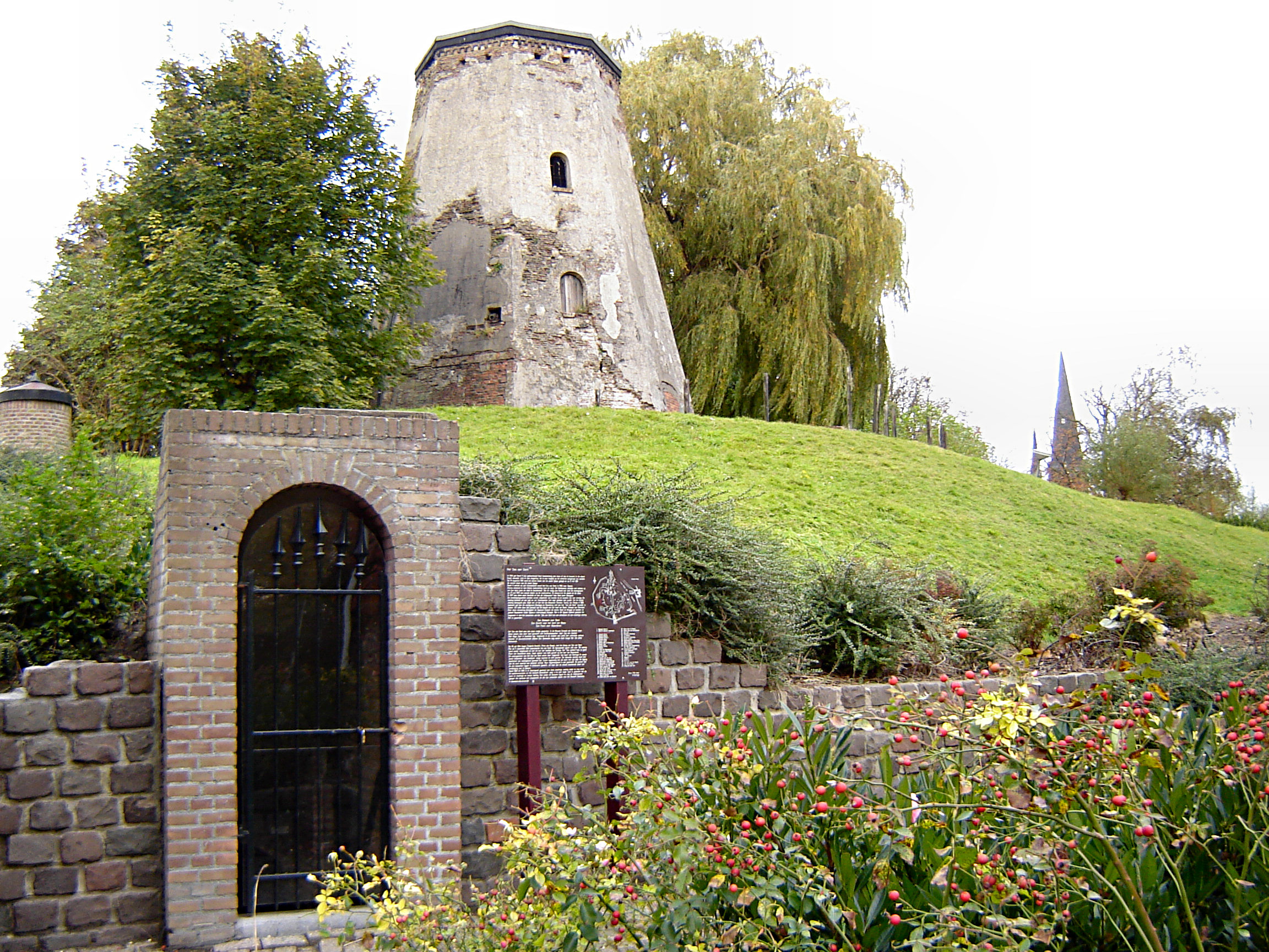 Bolwerk Generaliteit, the former bastion Generaliteit, with Molenberg hill with former windmill, in Sas van Gent. Sas van Gent, Terneuzen, Zeeland, the Netherlands